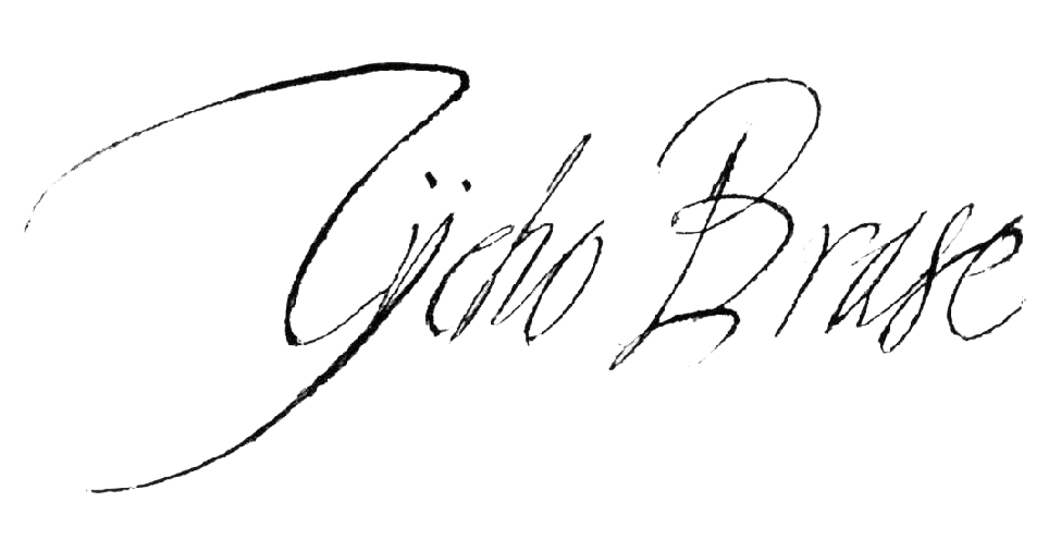 authentique signature of Tycho Brahe (*1546 †1601)